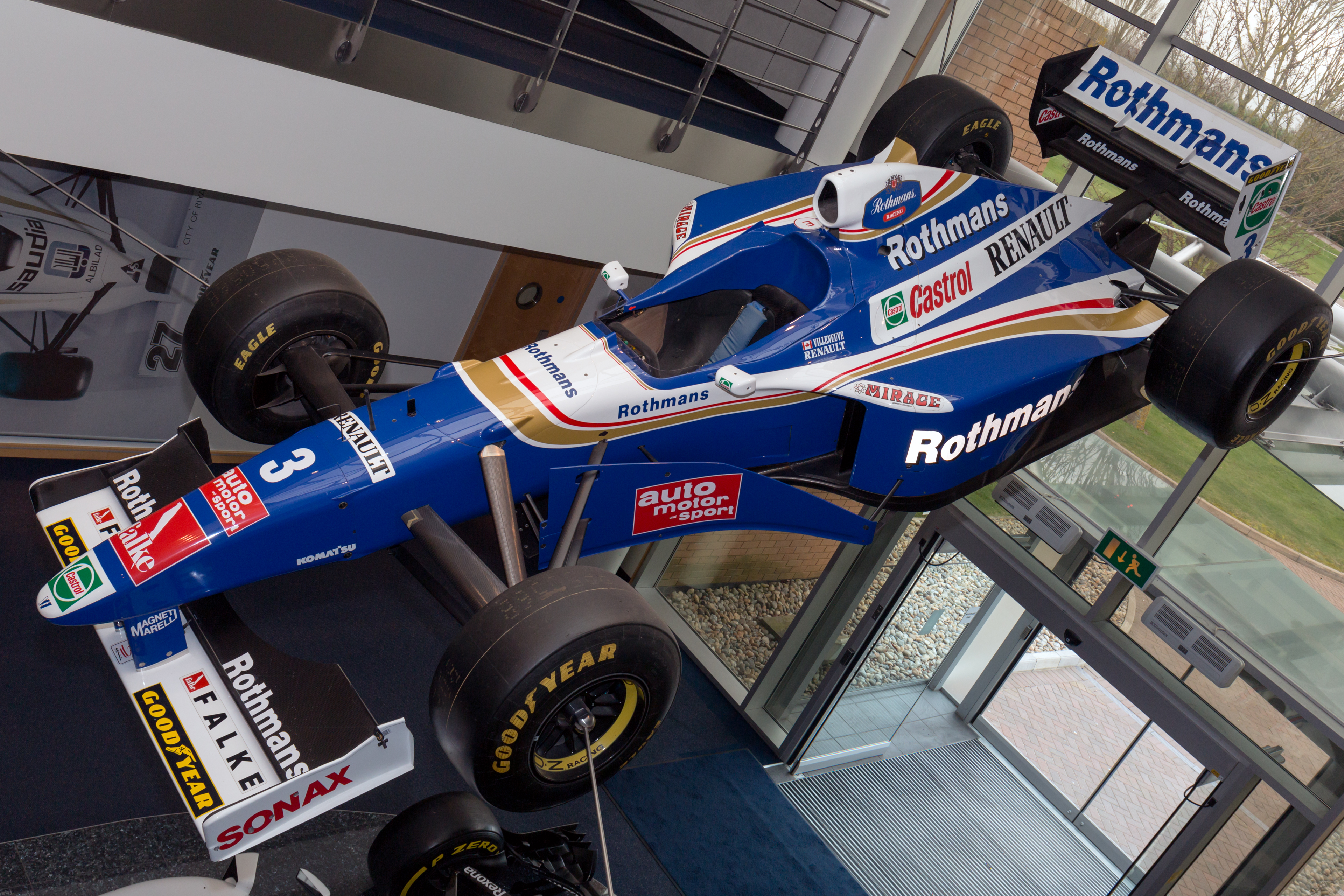 Williams Conference Centre (Grove): Williams FW19 of Jacques Villeneuve, displayed on the entrance of the Conference Centre.